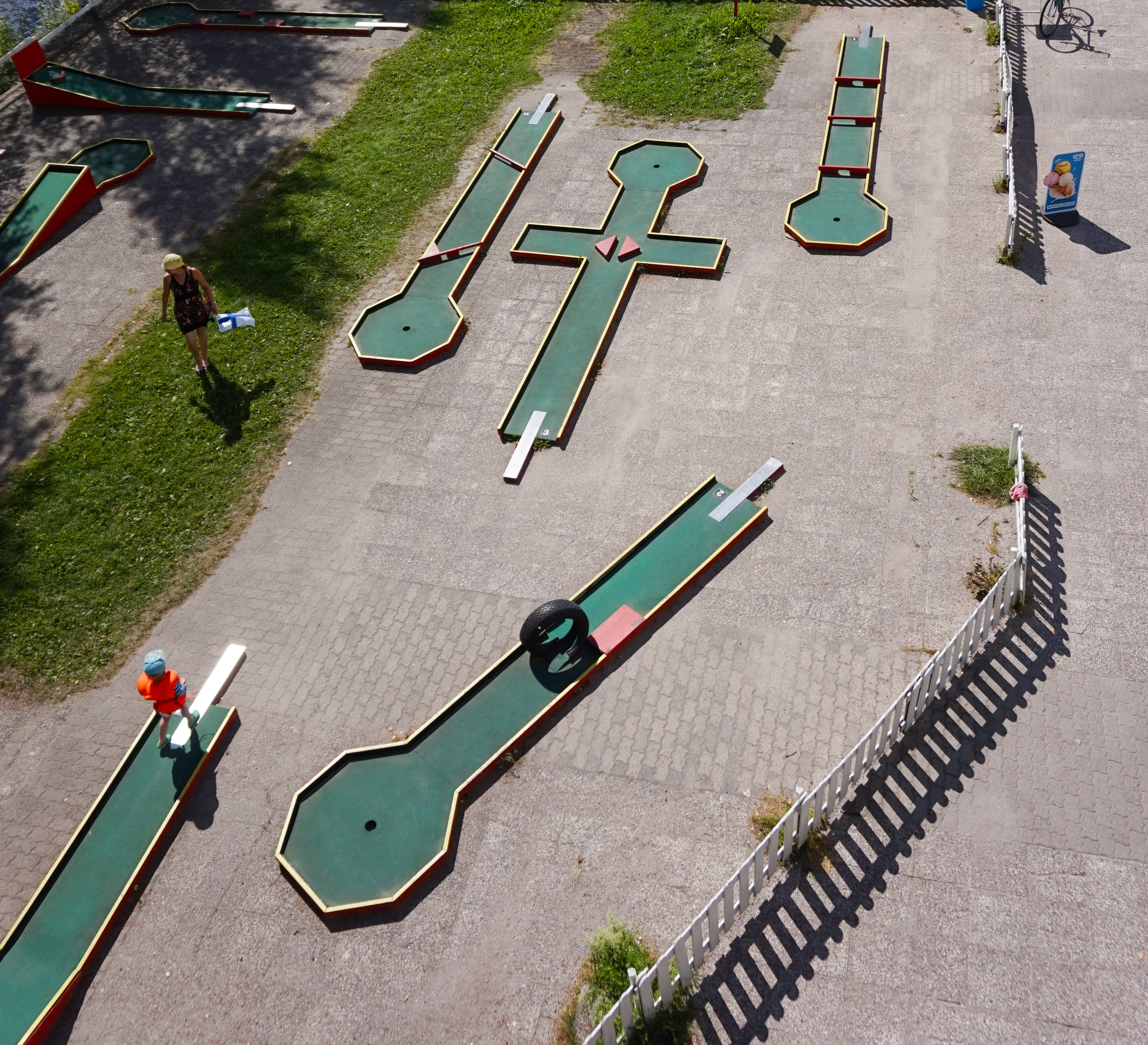 Miniature golf in Jyväskylä harbour.